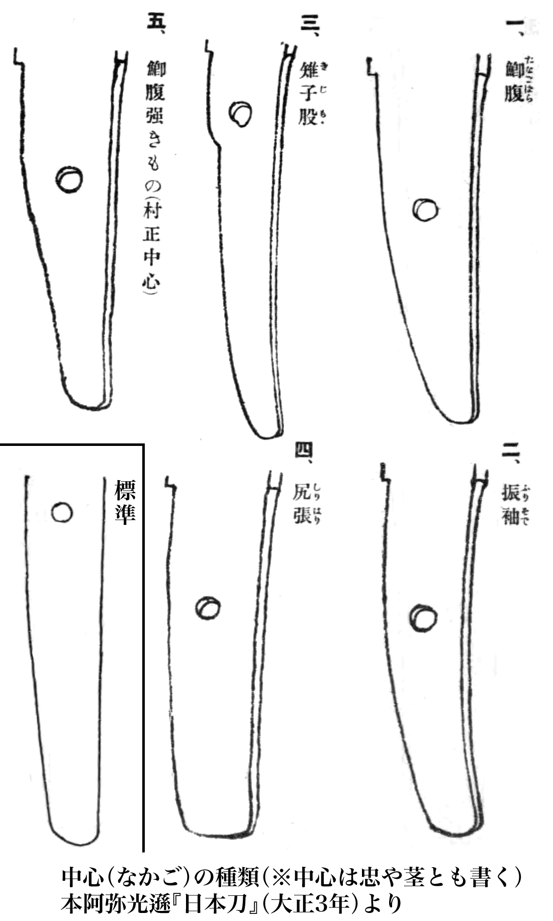 Types of nakago (katana-tang) shapes. About the license: This image is an compilation of drawings from Kōson Hon'ami Nihontō The book is in the public domain in US because it was published before 1923 (in 1914) and so in Japan because the author died more than 50 years ago (in 1955).